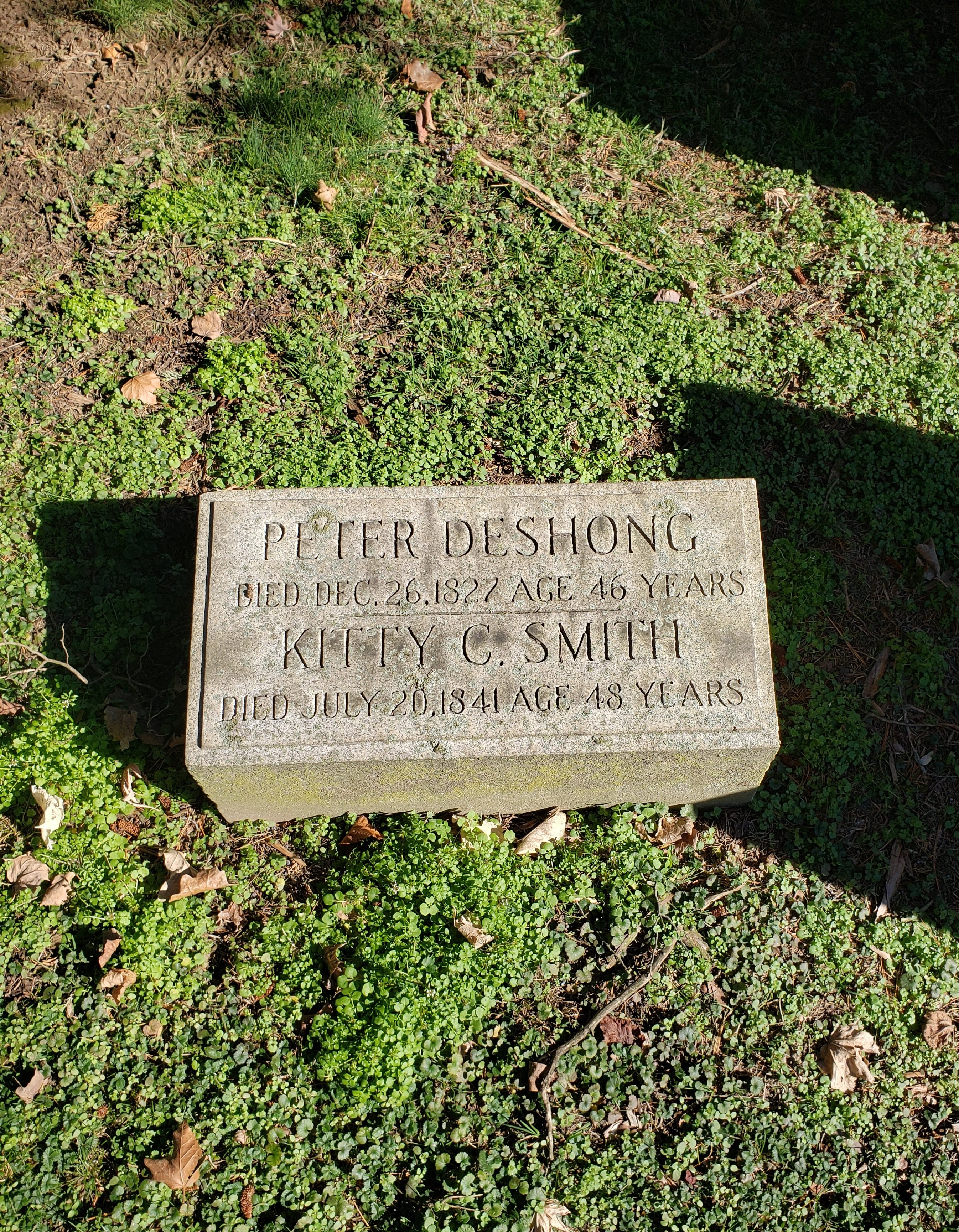 Peter Deshong gravestone in Chester Rural Cemetery. Photo taken March 2020.